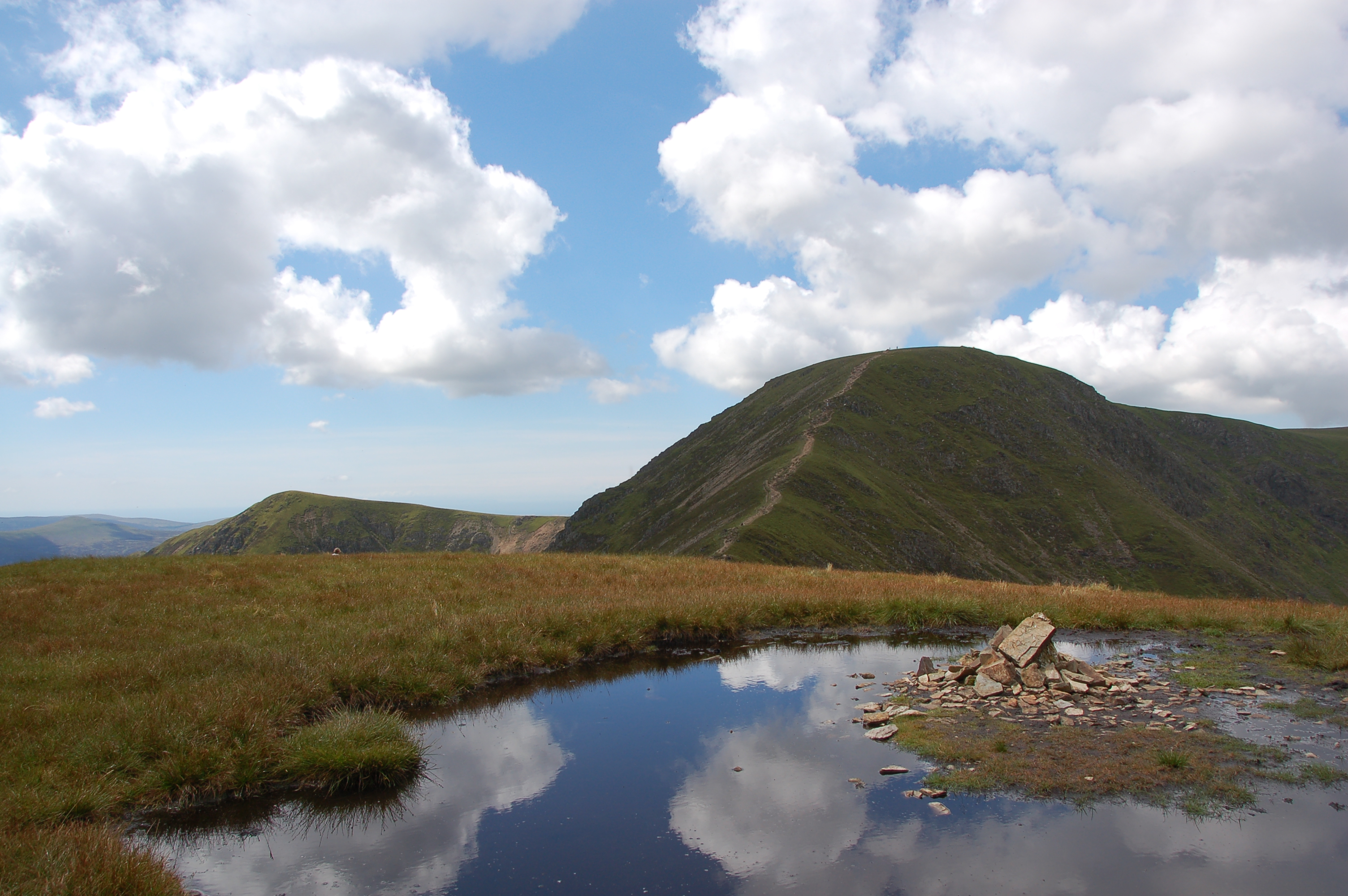 The summit of Sail taken by Alfred Gay on the 9th of August 2007. This image is relevant to the article on Sail (Lakeland Fell).